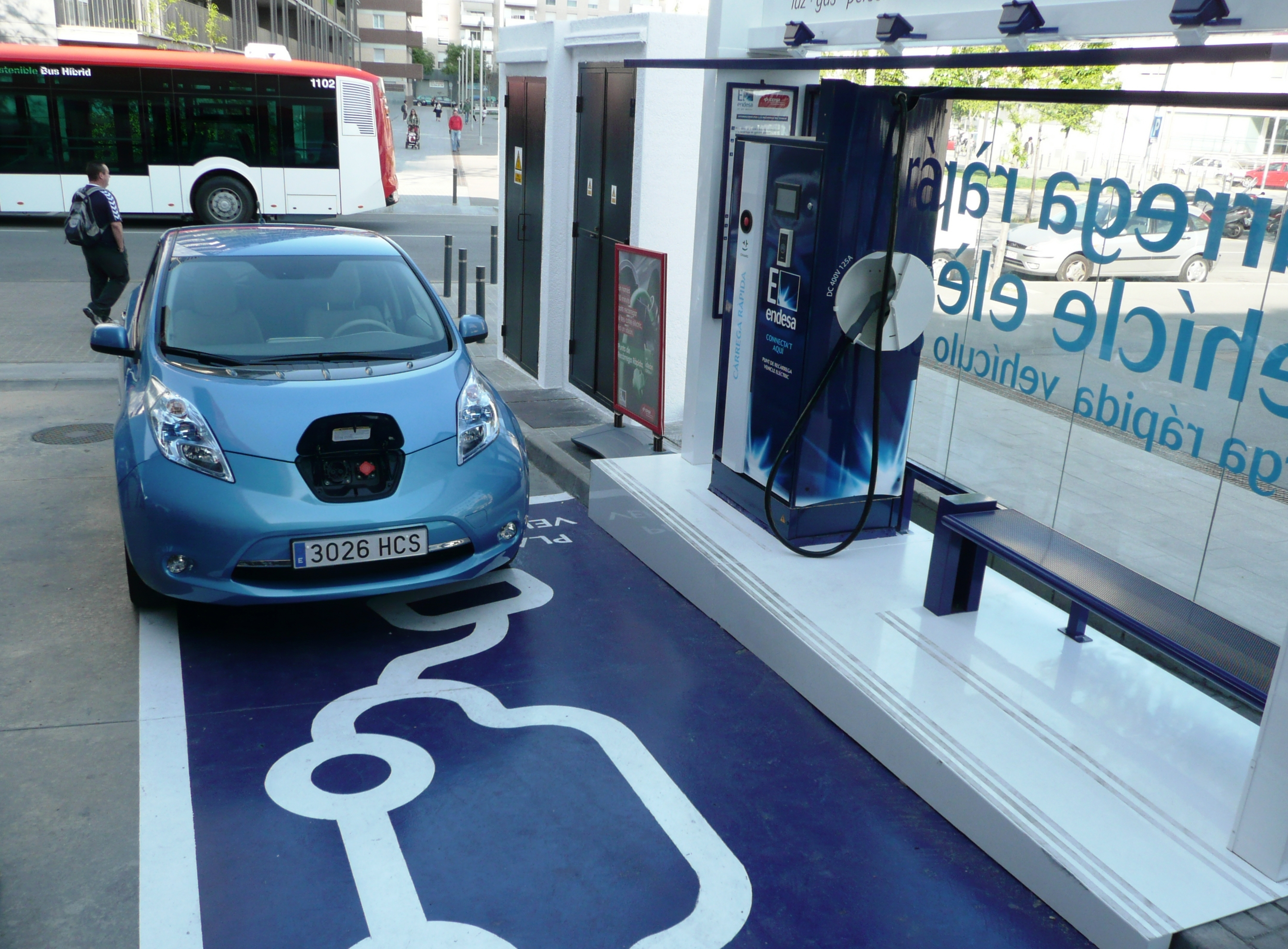 First EV Charging Station in Barcelona